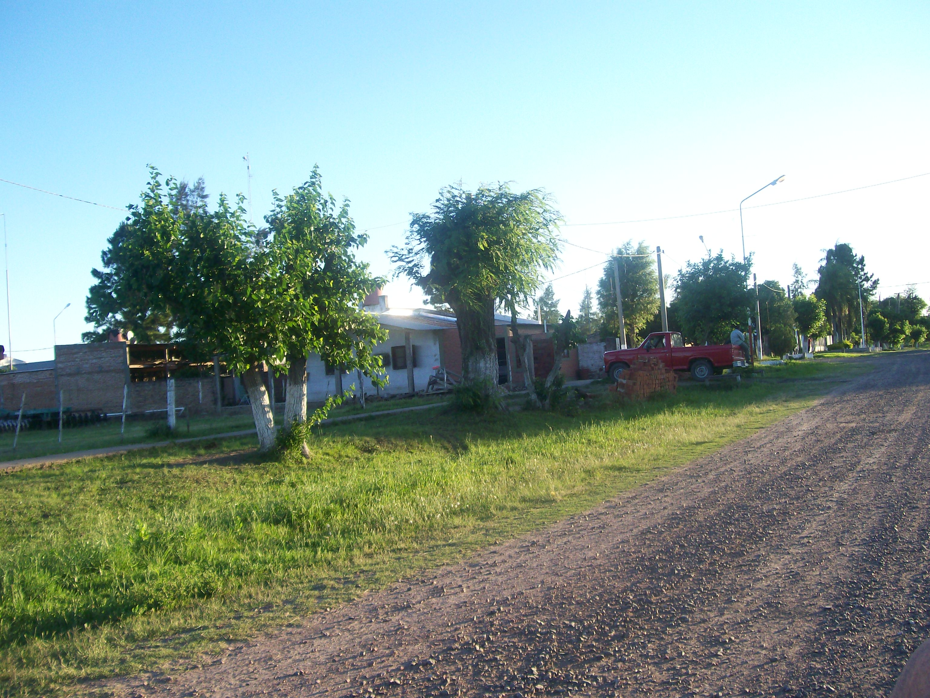 Colonia Popular's main street, seen from town hall to the North. Chaco Province, Argentina.